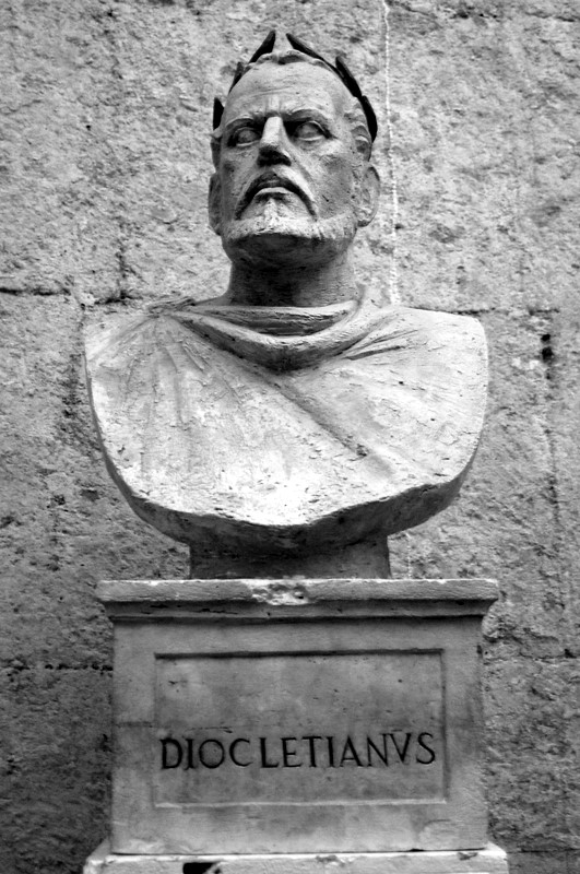 Diocletian. In Diocletian's Palace, Split, Croatia, Hrvatska.